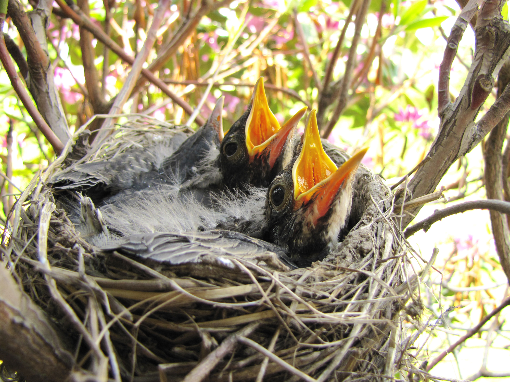 Baby Robins Ready to Feed